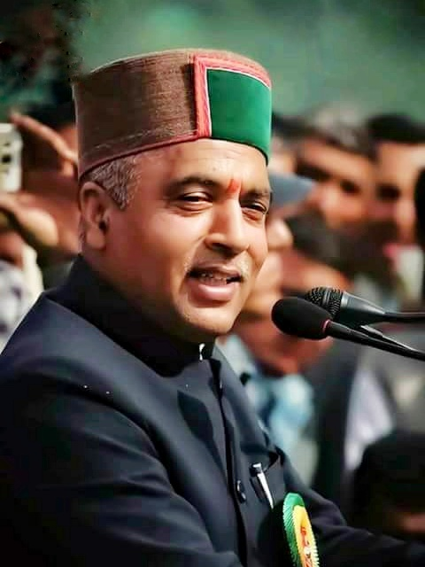 Jai Ram Thakur, Chief minister of Himachal Pradesh.